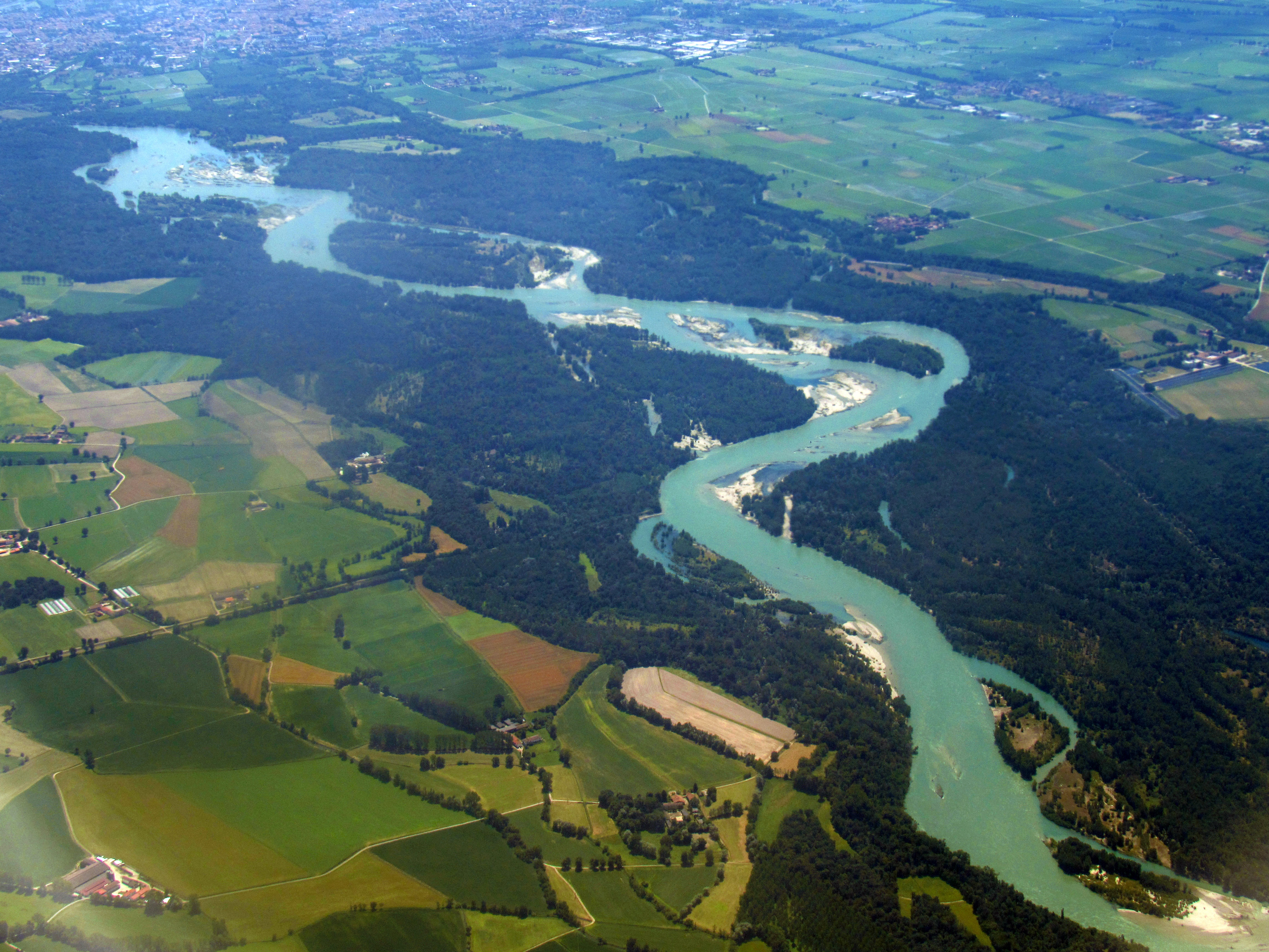 The Ticino River, south of Milan–Malpensa Airport in Italy.